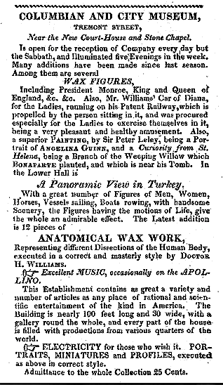 Ad for Columbian and City Museum; Tremont St., Boston